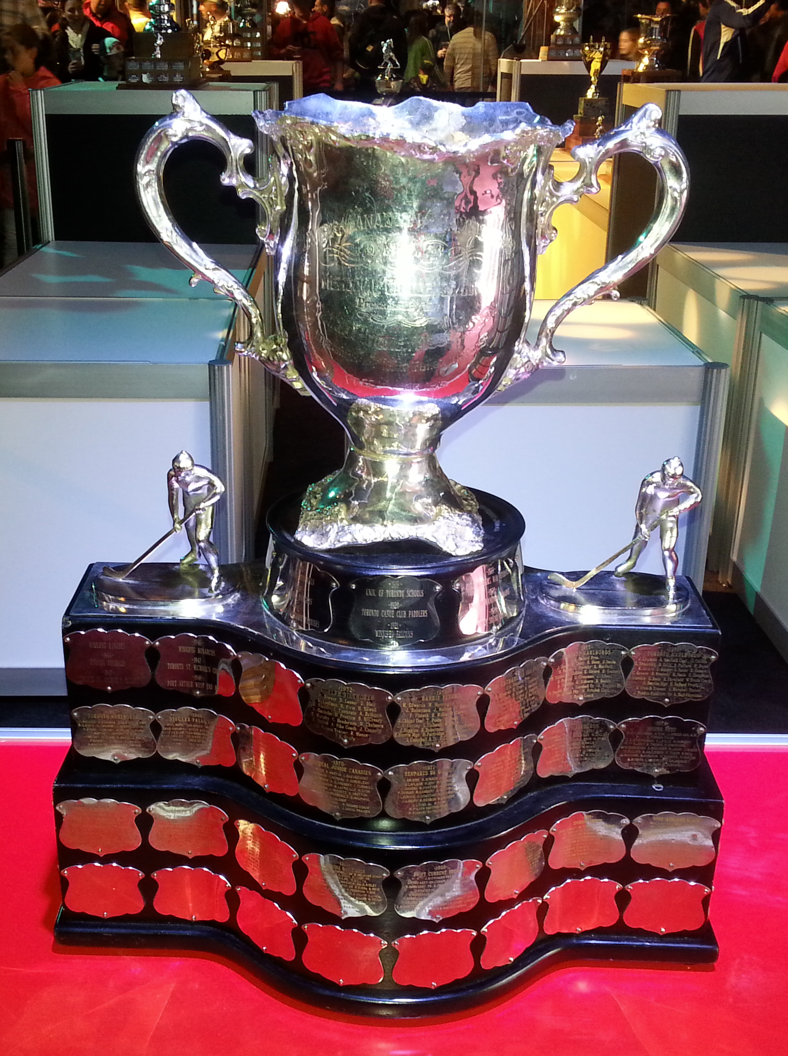 Photo of the Memorial Cup trophy on display at the 2015 Memorial Cup tournament